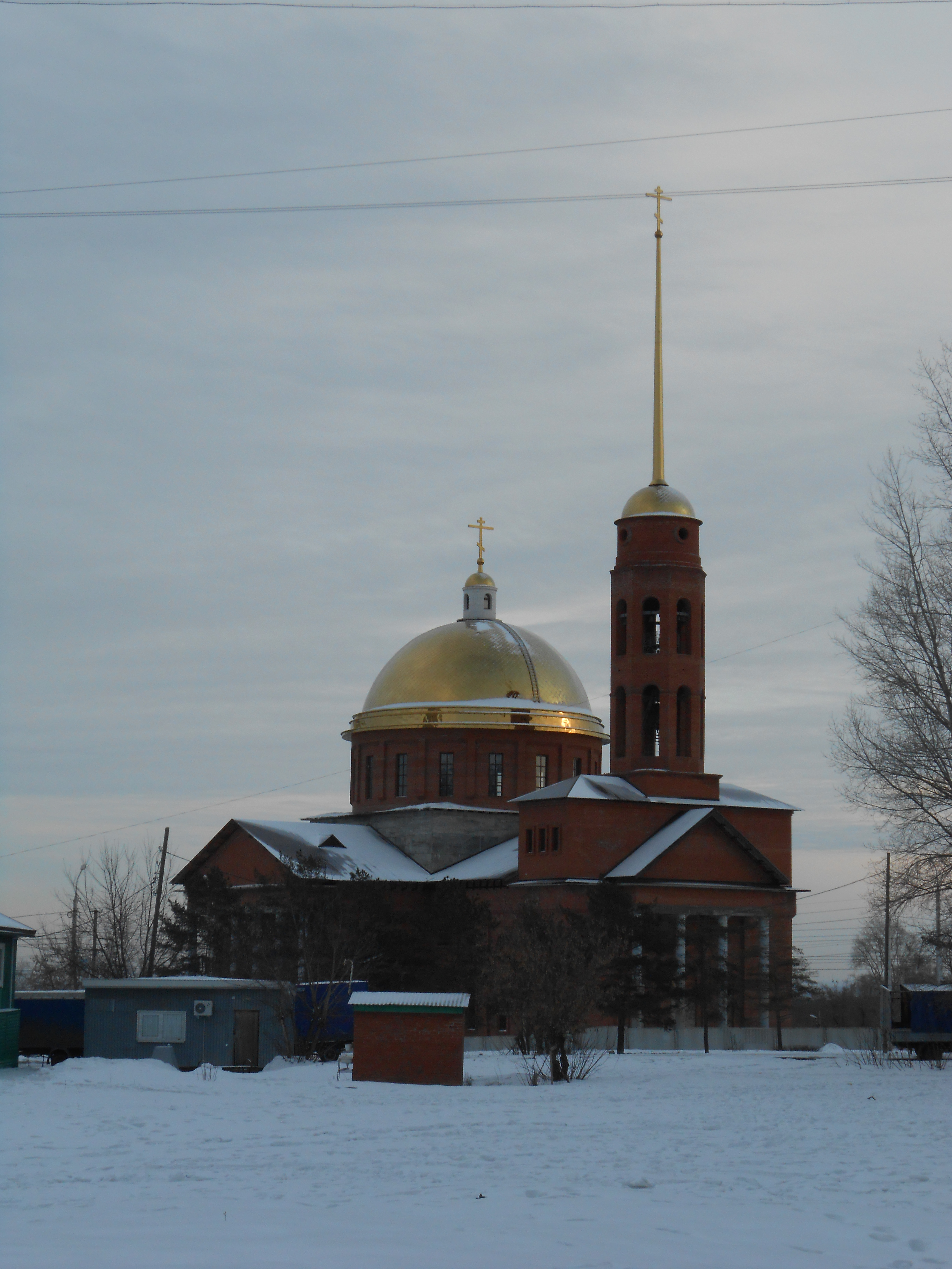 Храм равноапостольных Кирилла и Мефодия на улице Комсомольской в городе Уфа.